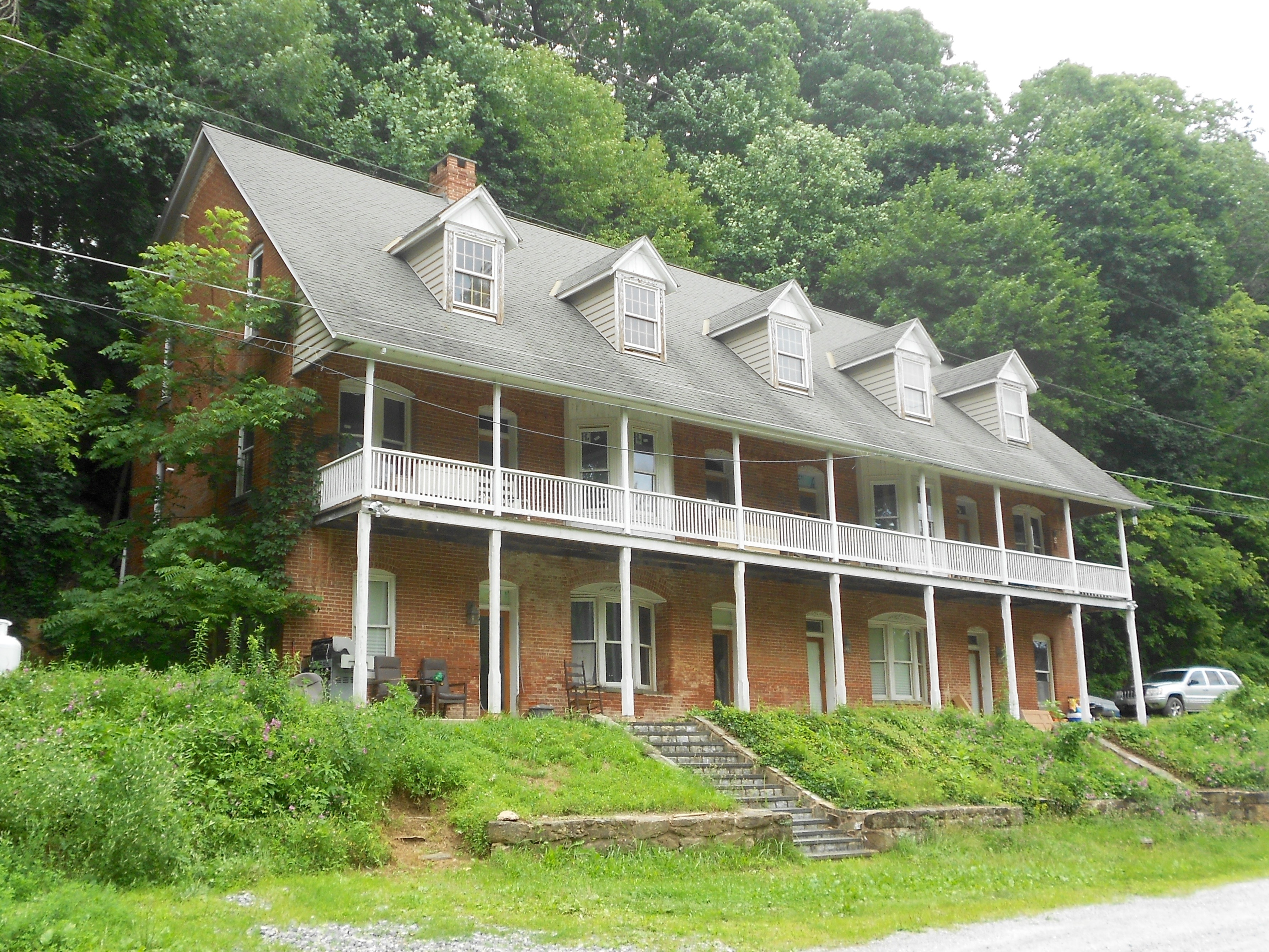 York County, Pennsylvania